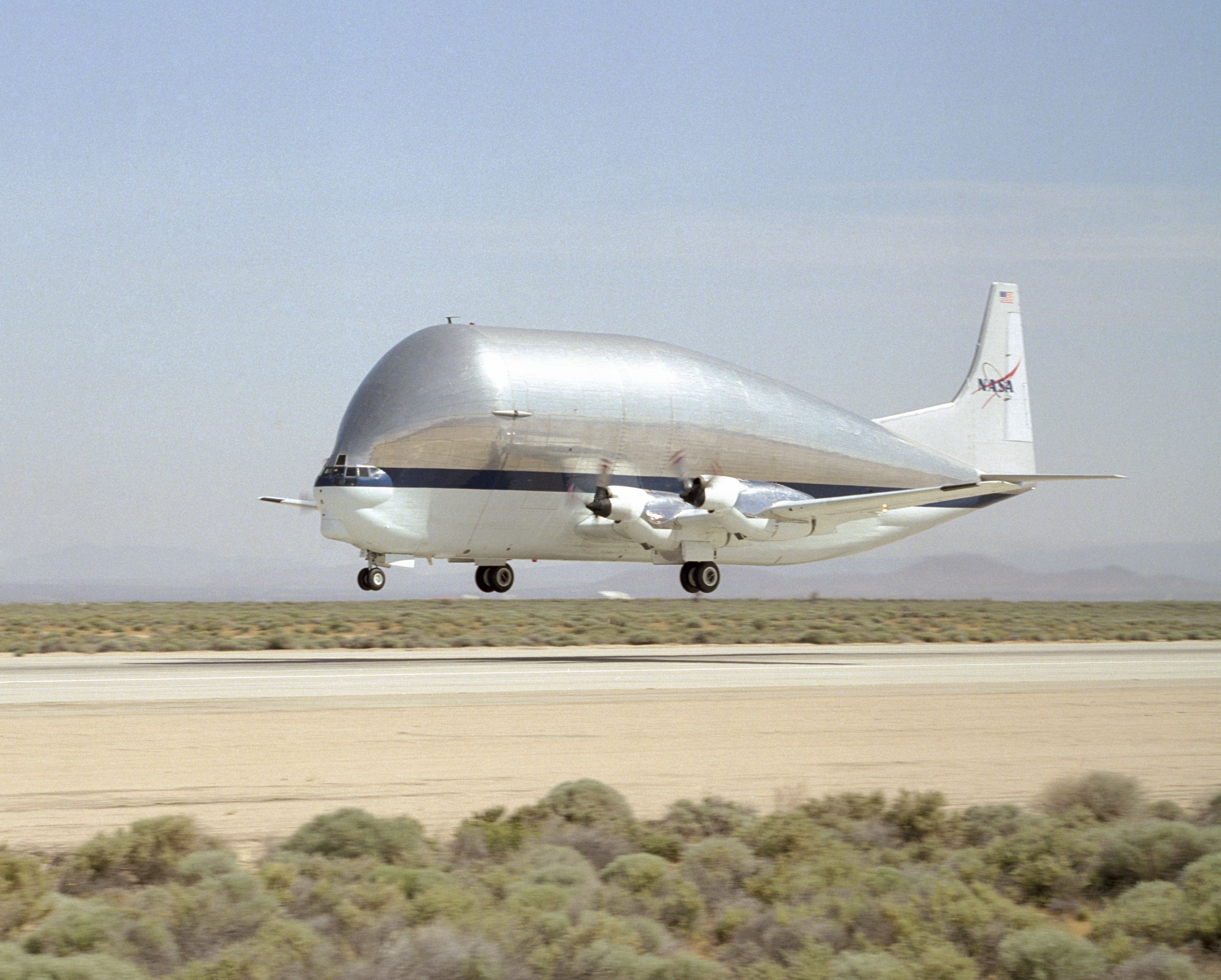 The various Guppies were modified from 1940's and 50's-vintage Boeing Model 377 and C-97 Stratocruiser airframes by Aero Spacelines, Inc., which operated the aircraft for NASA. NASA's Flight Research Center assisted in certification testing of the first Super Guppy in 1962. One of the turboprop-powered Super Guppies, built up from a YC-97J airframe, last appeared at Dryden in May, 1976 when it was used to transport the HL-10 and X-24B lifting bodies from Dryden to the Air Force Museum at Wright-Patterson Air Force Base, Ohio. NASA's present Super Guppy Turbine, the fourth and last example of the final version, first flew in its outsized form in 1980. It and its three sister ships were built in the 1970s for Europe's Airbus Industrie to ferry outsized structures for Airbus jetliners to the final assembly plant in Toulouse, France. It later was acquired by the European Space Agency, and then acquired by NASA in late 1997 for transport of large structures for the International Space Station to the launch site. It replaced the earlier-model Super Guppy, which has been retired and is used for spare parts. NASA's Super Guppy Turbine carries NASA registration number N941NA, and is based at Ellington Field near the Johnson Space Center.